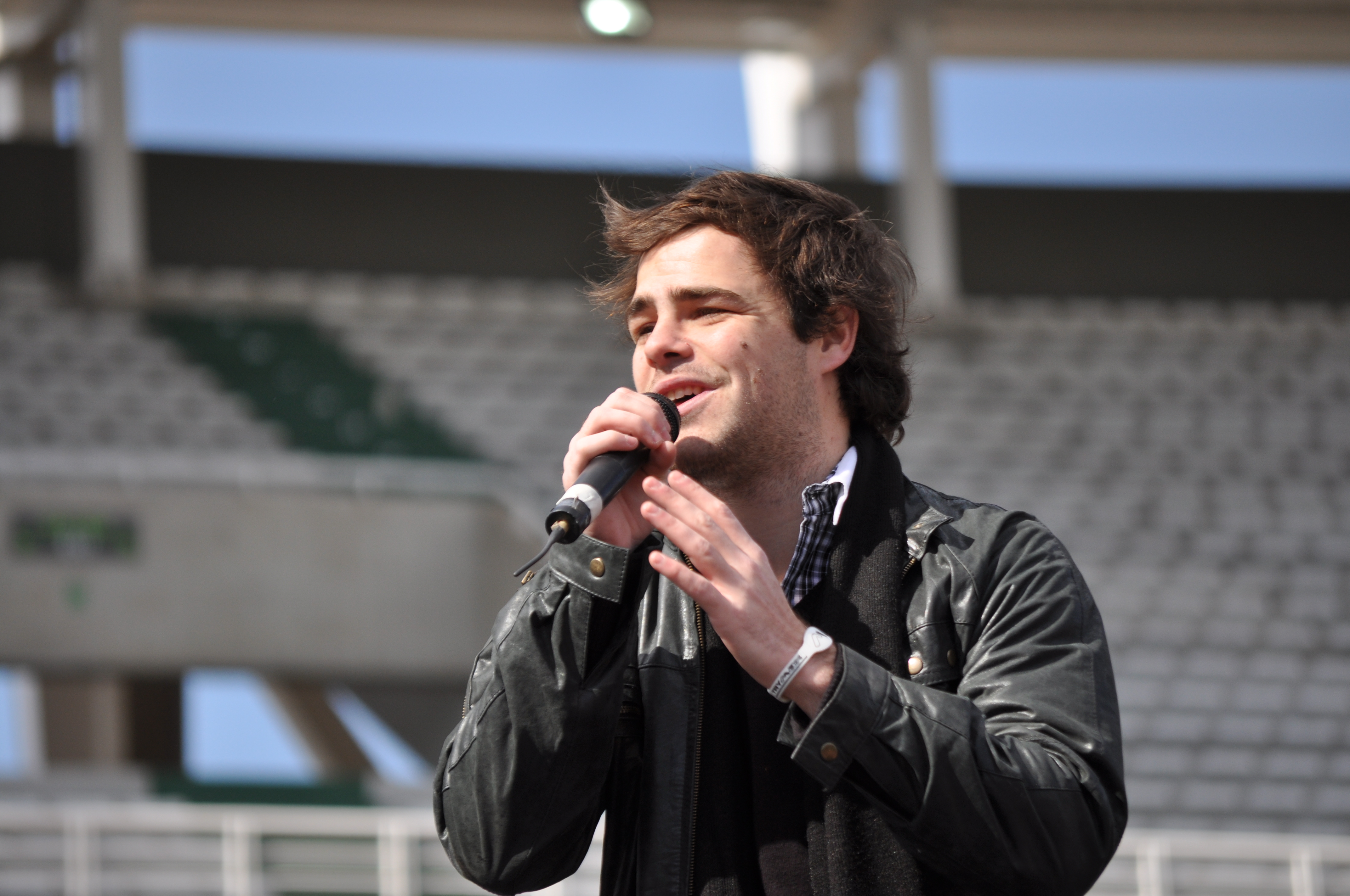 Juan Pedro Lanzani from Teen Angels at a concert in Cordoba, Argentina.